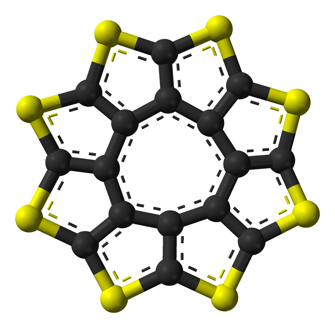 Ball-and-stick model of the sulflower molecule, C16S8, as found in the crystal structure. X-ray crystallographic data from Angew. Chem. Int. Ed. (2006) 45, 7367-7370. Model constructed in CrystalMaker 8.1. Image generated in Accelrys DS Visualizer.